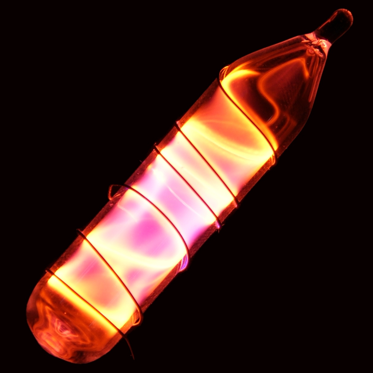 Vial of glowing ultrapure neon. Original size in cm: 1 x 5